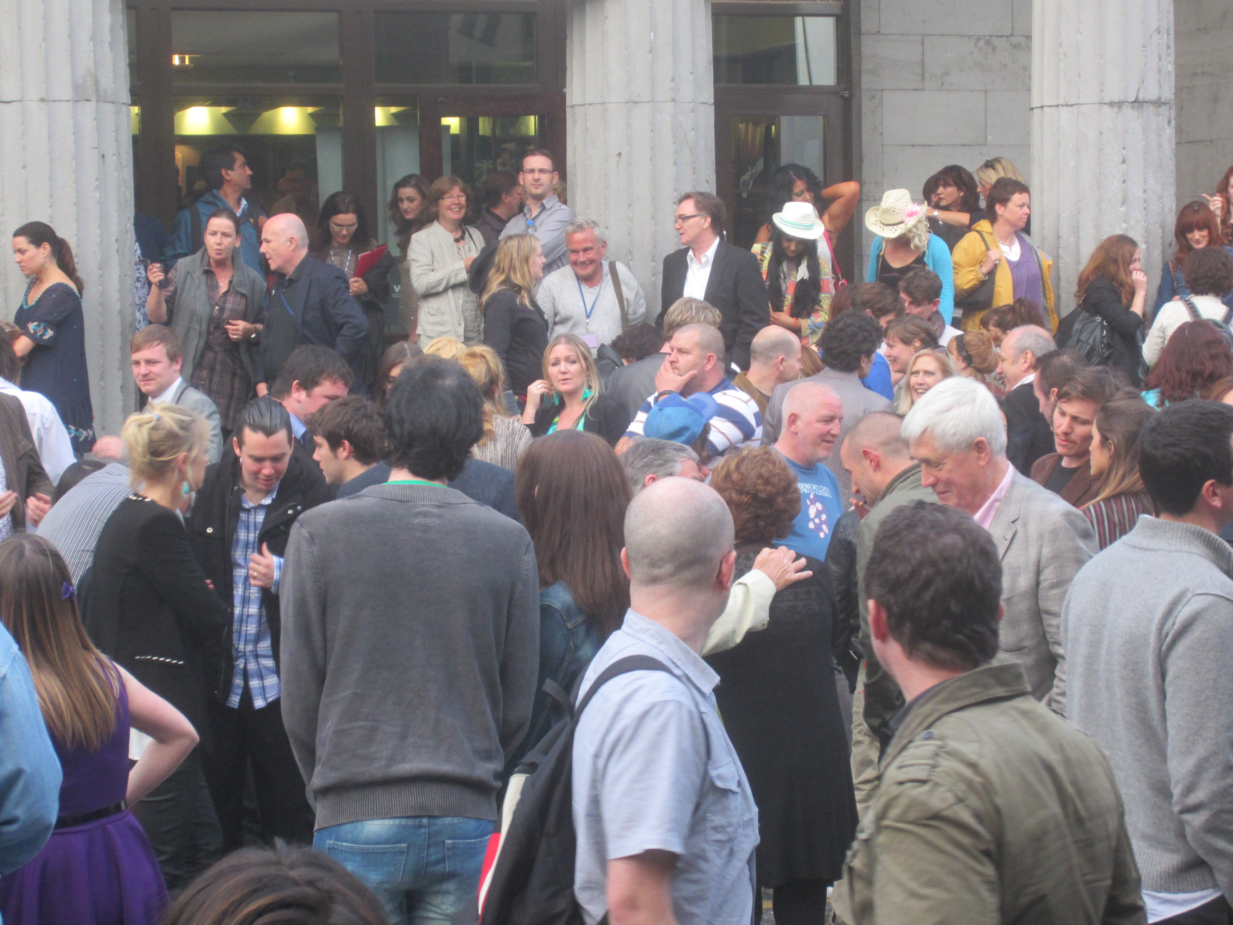 Crowds outside the Town Hall theatre at the Galway Film Fleadh